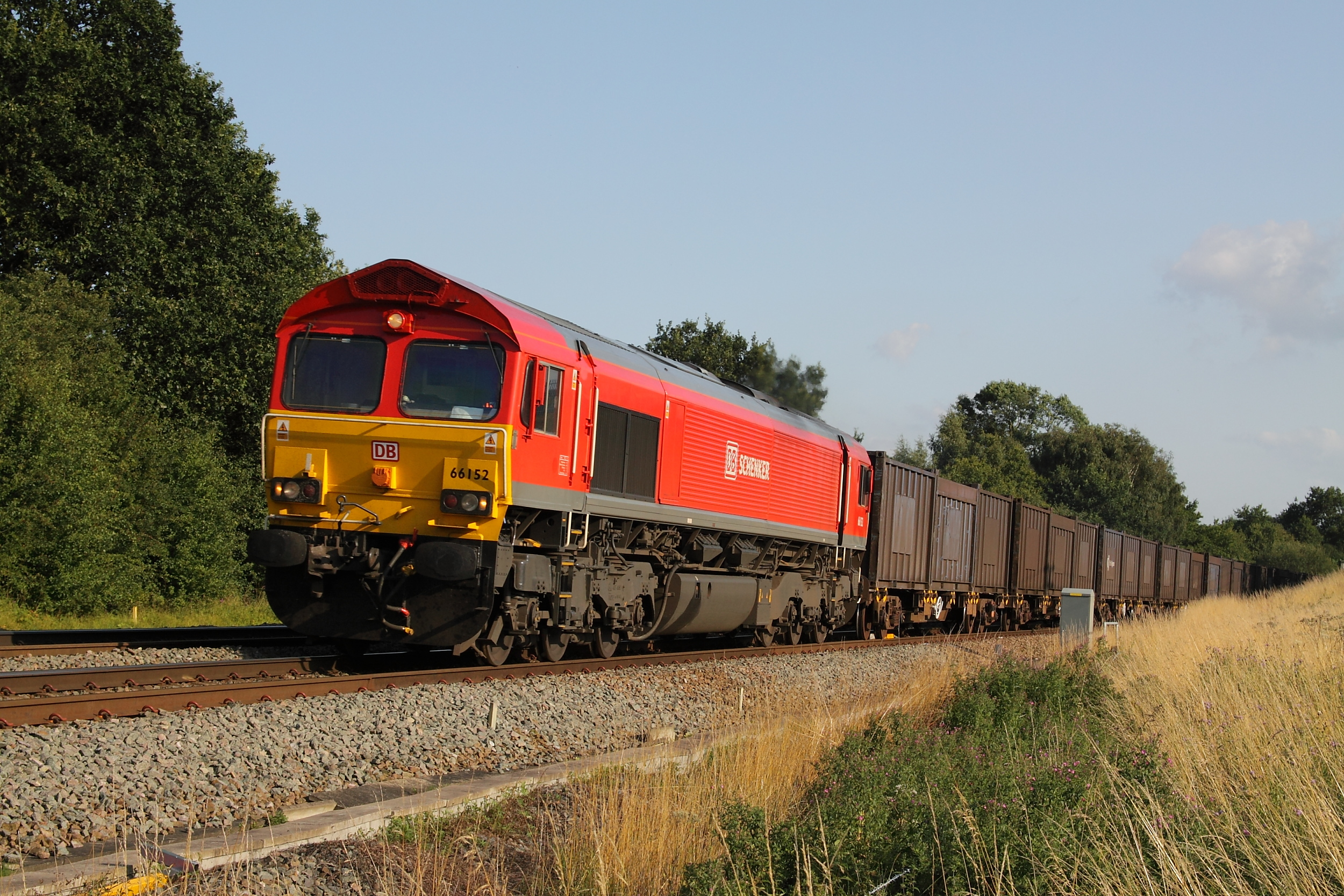 66152 passes Danesmoor working 6Z76 Hotchley Hill - Milford West Sidings flyash empties.